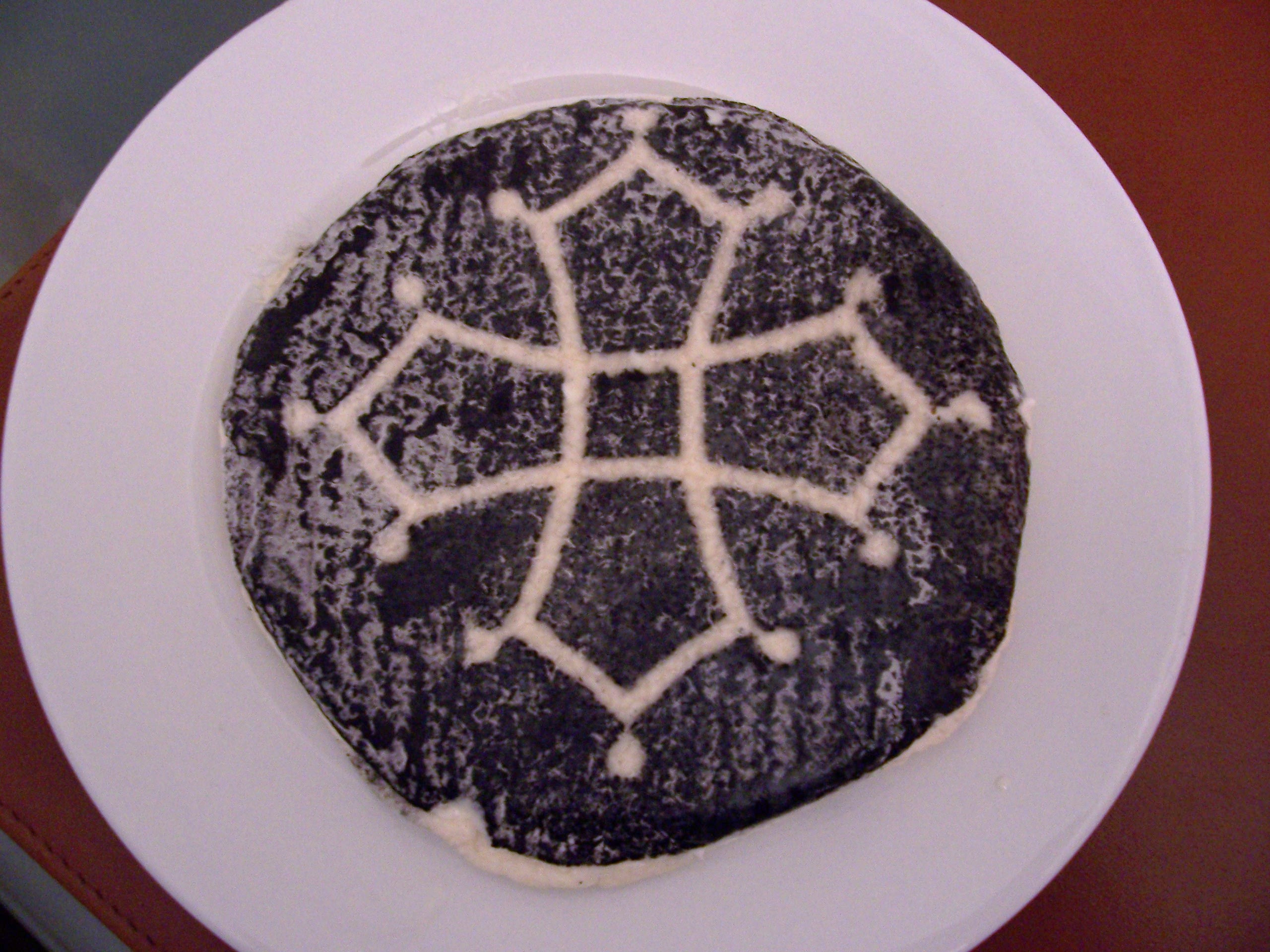 Cathare is the name of a cheese of Occitanie